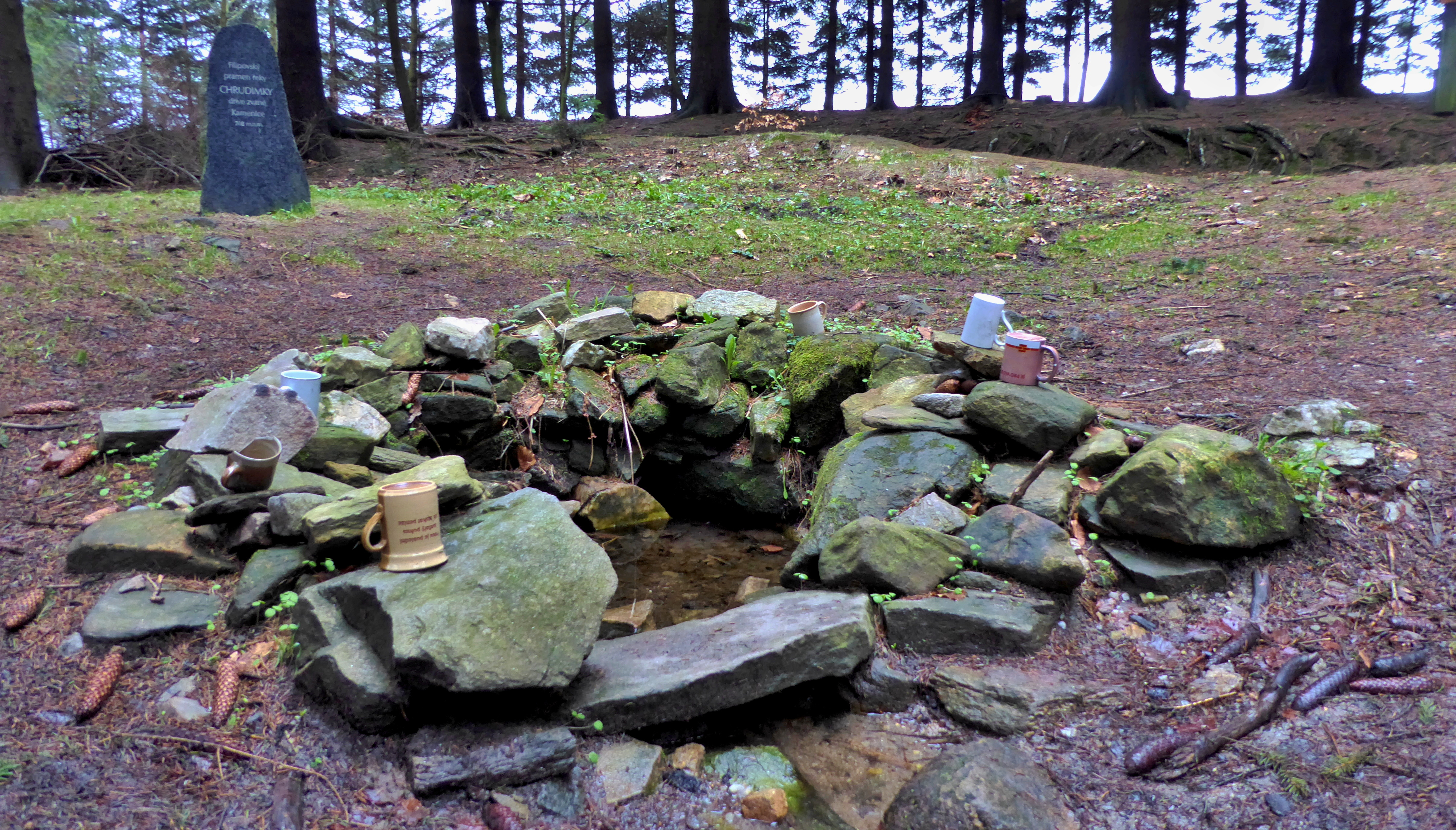 The "Filipovský" spring is the main source of the river Chrudimka with natural spring of the groundwater on the Earth's surface at aproximallity an altitude of 705 m at the edge of the forest locality with name "Humperky" in the landscape area of the Iron Mountains, within the administrative division in the cadastral area of the Krouna municipality in the Chrudim district, belonging to the Pardubice Region in the Czech Republic. The river is springing approximately 750 m away northwest of the highest peak of the Iron Mountains with the geographical name "U oběšeného" (737.4 m), with the local name "Na panenkách". From the point of view of the regional divide georelief of the Czech Republic springs "Chrudimka" in the geomorphological district "Kameničská" highlands, this is of the part of the "Sečská" Highlands in the southeast part of the Iron Mountains. The river has more springs in the area at the village "Kameničky", above the settlement Filipov (from it the name of the source "Filipovský"). From the point of view of hydrology, the most important source of the Chrudimka river. The geographical name of the river comes from the town of Chrudim and has been used since the 17th century. Photo location: Czechia, Pardubice Region, municipality Krouna, forest locality Humperky, "Filipovský" spring.